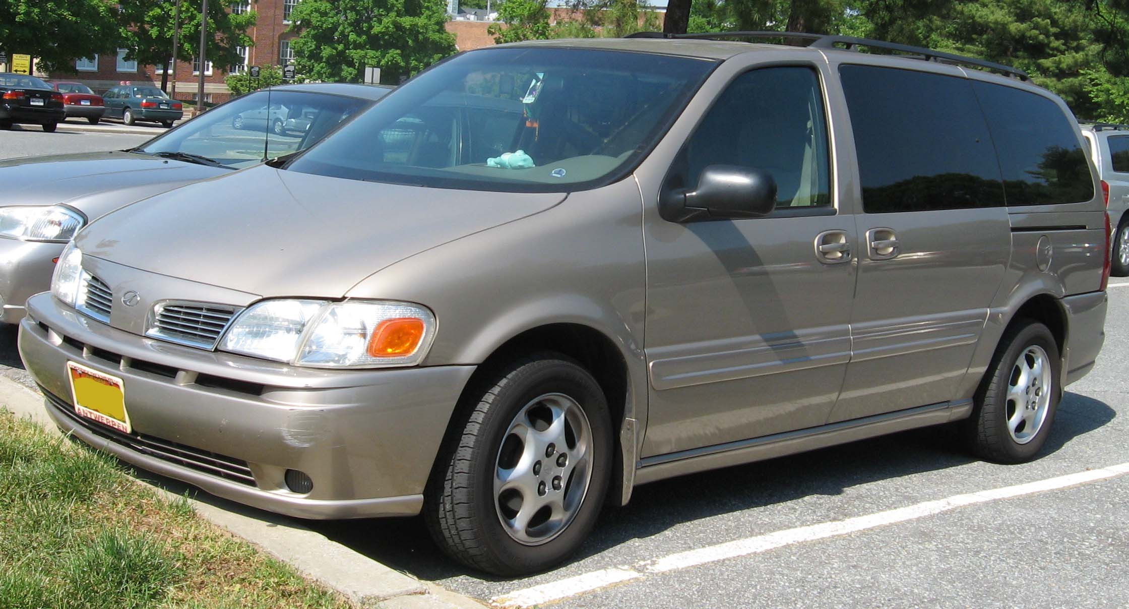 2001-2004 Oldsmobile Silhouette photographed in USA.